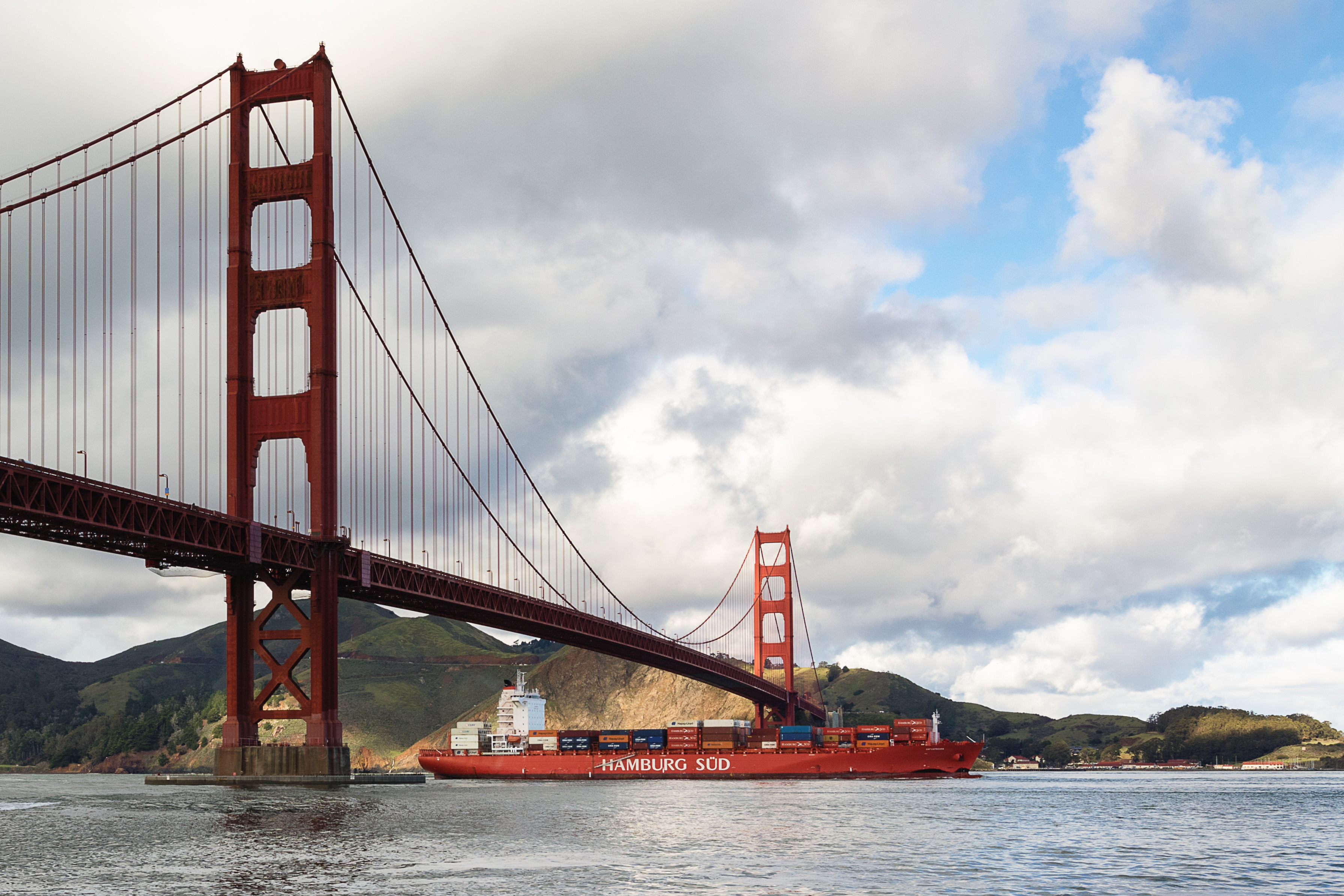 A container ship of the shipping line Hamburg Süd passing the Golden Gate in January 2017